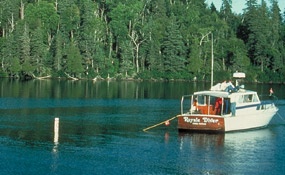 Mooring over the America, Isle Royale National Park.